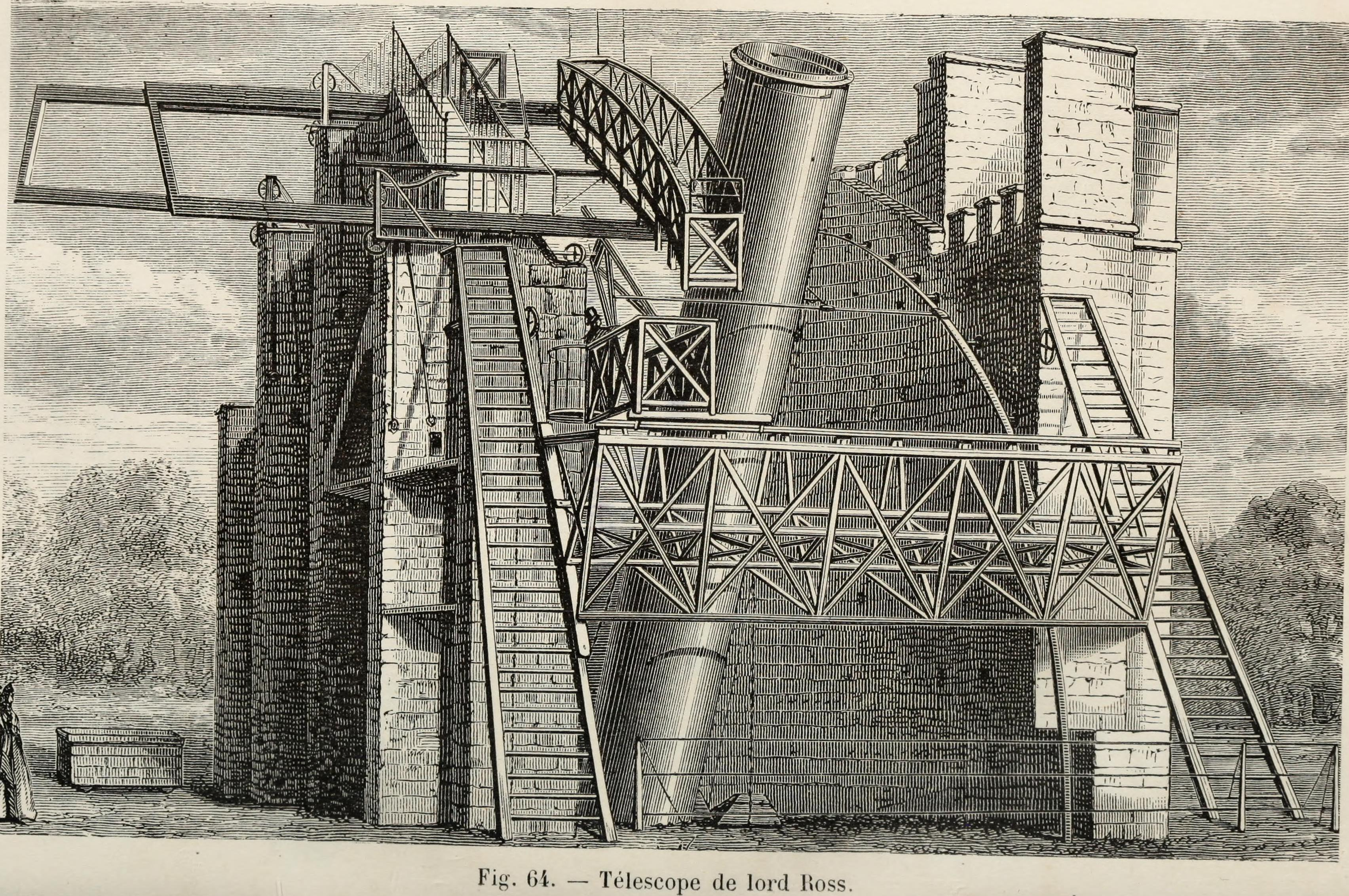 Title: La verrerie depuis les temps les plus reculés jusqu'à nos jours Year: 1869 (1860s) Authors: Sauzay, A. (Alexandre), 1804-1870 Cavagna Sangiuliani di Gualdana, Antonio, conte, 1843-1913, former owner. IU-R Subjects: Glass Glassware Glass manufacture Glass craft Decoration and ornament Glass painting and staining Mirrors Optical glass Optical instruments Eyes, Artificial Glass beads Publisher: Paris : L. Hachette & Cie Text Appearing Before Image: Fig. 03. — Télescope dIIerschel. cest-à-dire en supprimant le second miroir employé parGregory, qui amène nécessairement une perte par cetteseconde réflexion sur le petit miroir. « Le plus grand télescope dont Herschel se soit servi m m Text Appearing After Image: OPTIQUE. 283 était formé dun miroir de lm,47 de diamètre. Le tuyauavait 12 mètres, et lobservateur se plaçait à son extré-mité, une forte lentille à la main, pour regarder limage.Le grossissement pouvait élever jusquà six mille fois lediamètre du corps observé. Afin de donner au télescopelinclinaison convenable pour chaque observation, Herschelavait fait établir limmense appareil de mâts, de cordageset de poulies que représente la figure 63 que nous don-nons. Toute la construction reposait sur des roulettes, eton la faisait mouvoir tout dune pièce pour lorienter àlaide dun treuil. Lobservateur se plaçait sur une plate-forme suspendue à lorifice du tube, à peu près comme lesfauteuils accrochés à ces balançoires qui ont la forme devastes roues, et quon voit aux Champs-Elysées à Paris. Dureste, Herschel ne se servit que rarement de cet immensetélescope: il ny avait que cent heures dans lannée pen-dant lesquelles, sous le ciel brumeux de lAngleterre, lairfût